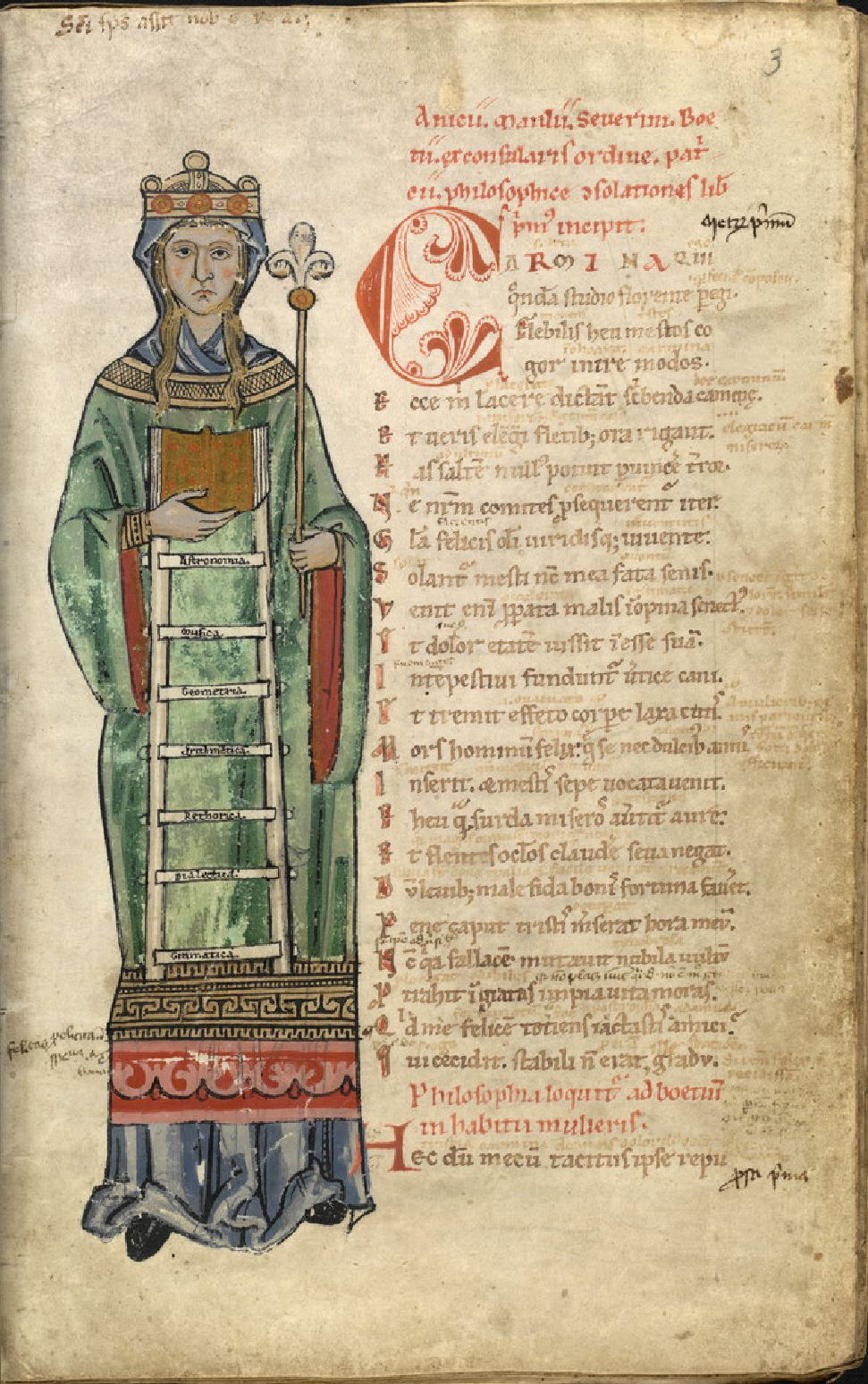 This illustration is from a manuscript of Boethius' The Consolation of Philosophy, from around 1230. The incipit can be clearly read: Carmina qui quondam studio florente peregi, Flebilis heu maestos cogor inire modos. (I, who once wrote songs with keen delight, am now by sorrow driven to take up melancholy measures.) A personification of Philosophy is shown holding a book. Leading up to the book is a ladder whose steps are the seven Liberal Arts: Grammatica, Dialectica, Rhetorica, Arithmetica, Geometria, Musica, and Astronomia. The original is held by Universitätsbibliothek Leipzig: De consolatione philosophiae, MS 1253, f.3r, c.1230.